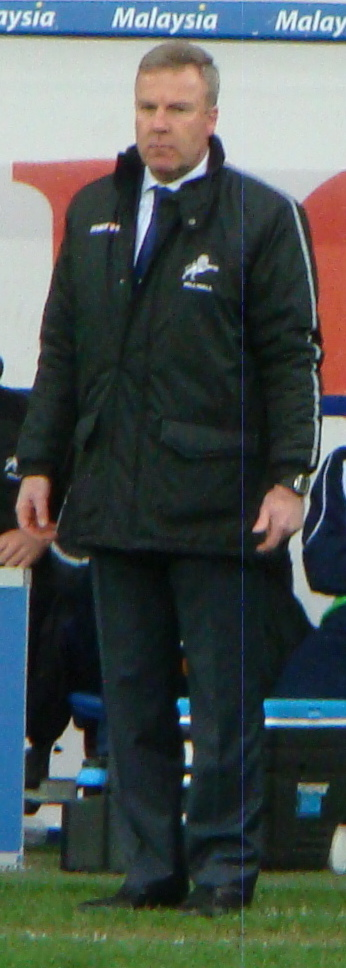 31/03/12 Cardiff v Millwall, Championship, Cardiff City Stadium, Cardiff, Wales